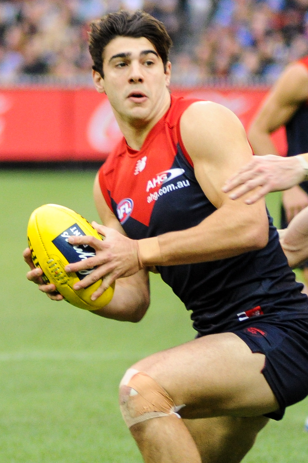 Christian Petracca during the AFL round twelve match between Melbourne and Collingwood on 12 June 2017 at the Melbourne Cricket Ground in Melbourne, Victoria.